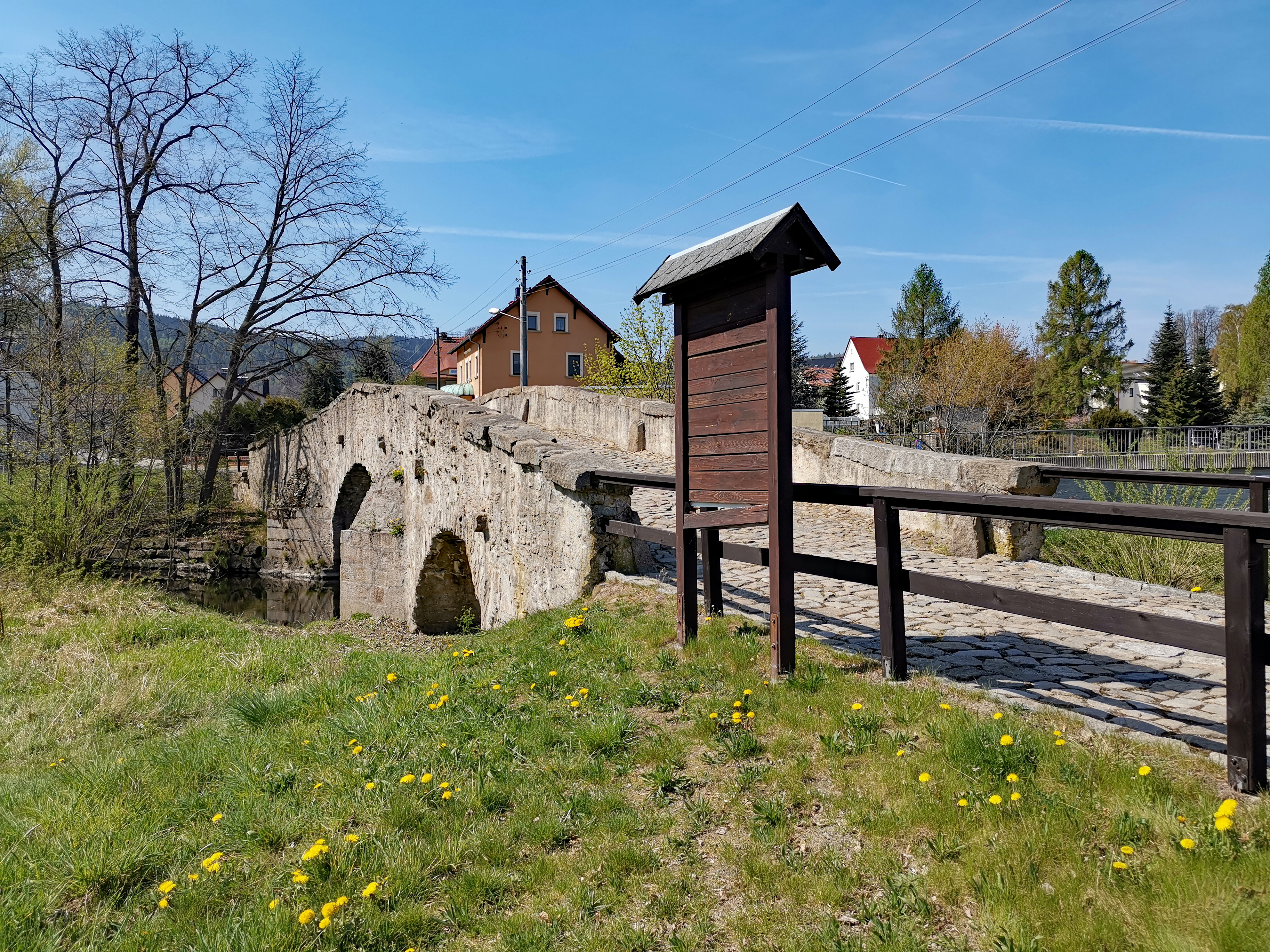 Bridge between Kleindöbschütz and Großdöbschütz (Obergurig, Saxony, Germany) over the river Spree